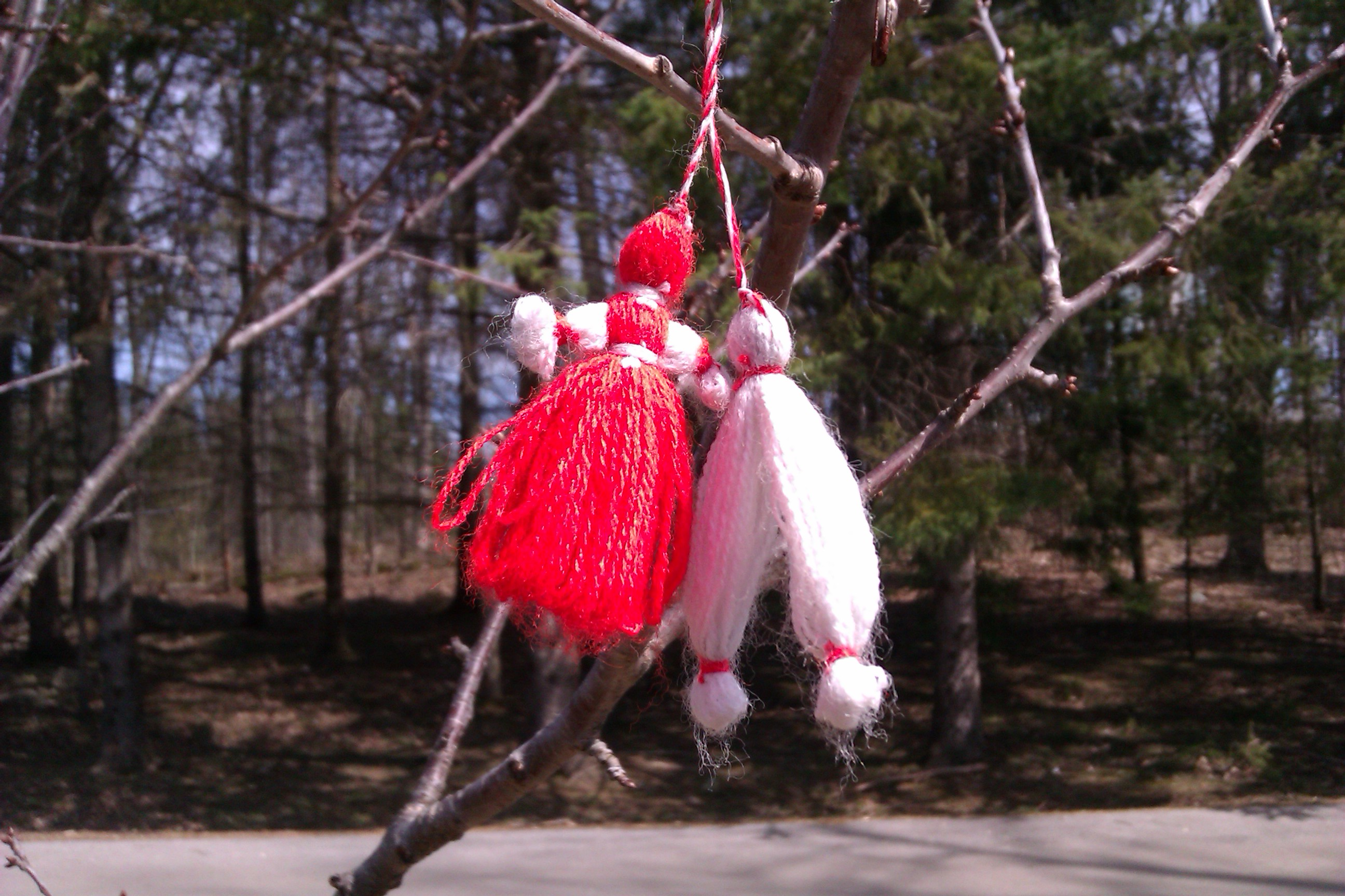 Martenitsa dolls Pizho and Penda